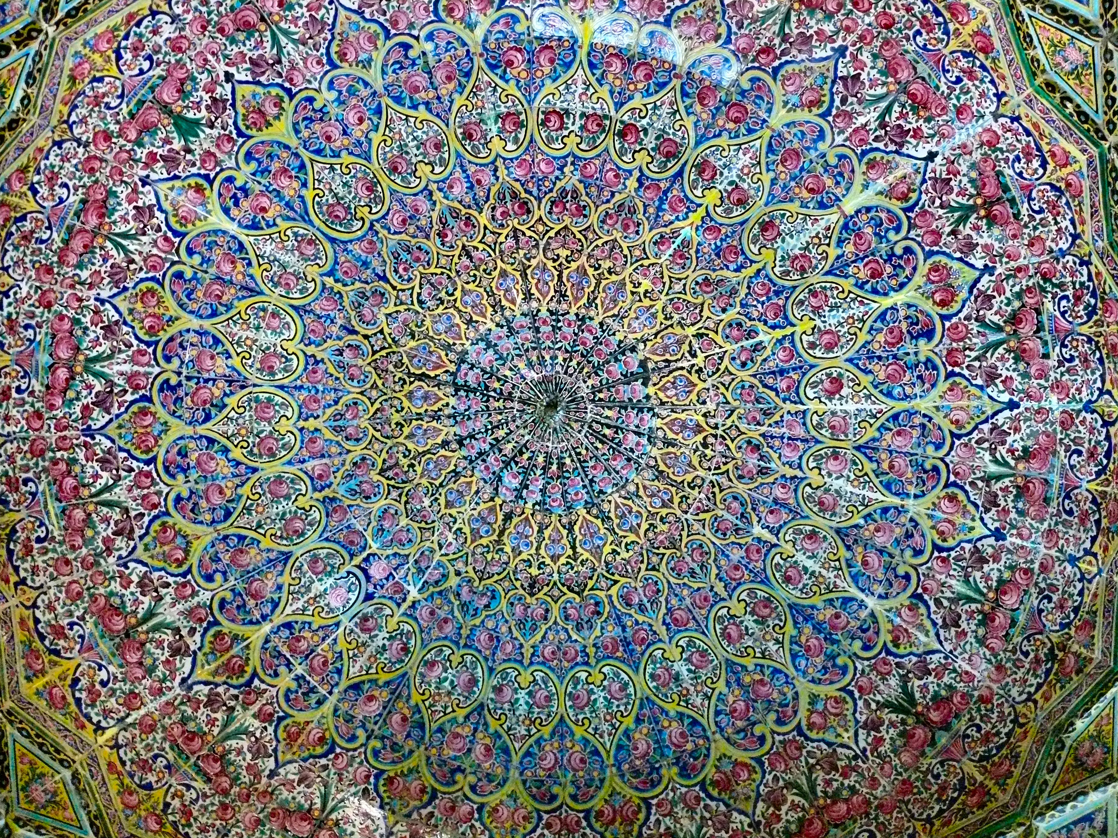 Rosace ceramic tile work decorating the ceiling of the praying room of the Nasr Ol Molk Mosque. Example of Qajar dynasty architecture — at Shiraz, Fars province, Iran. April 2008